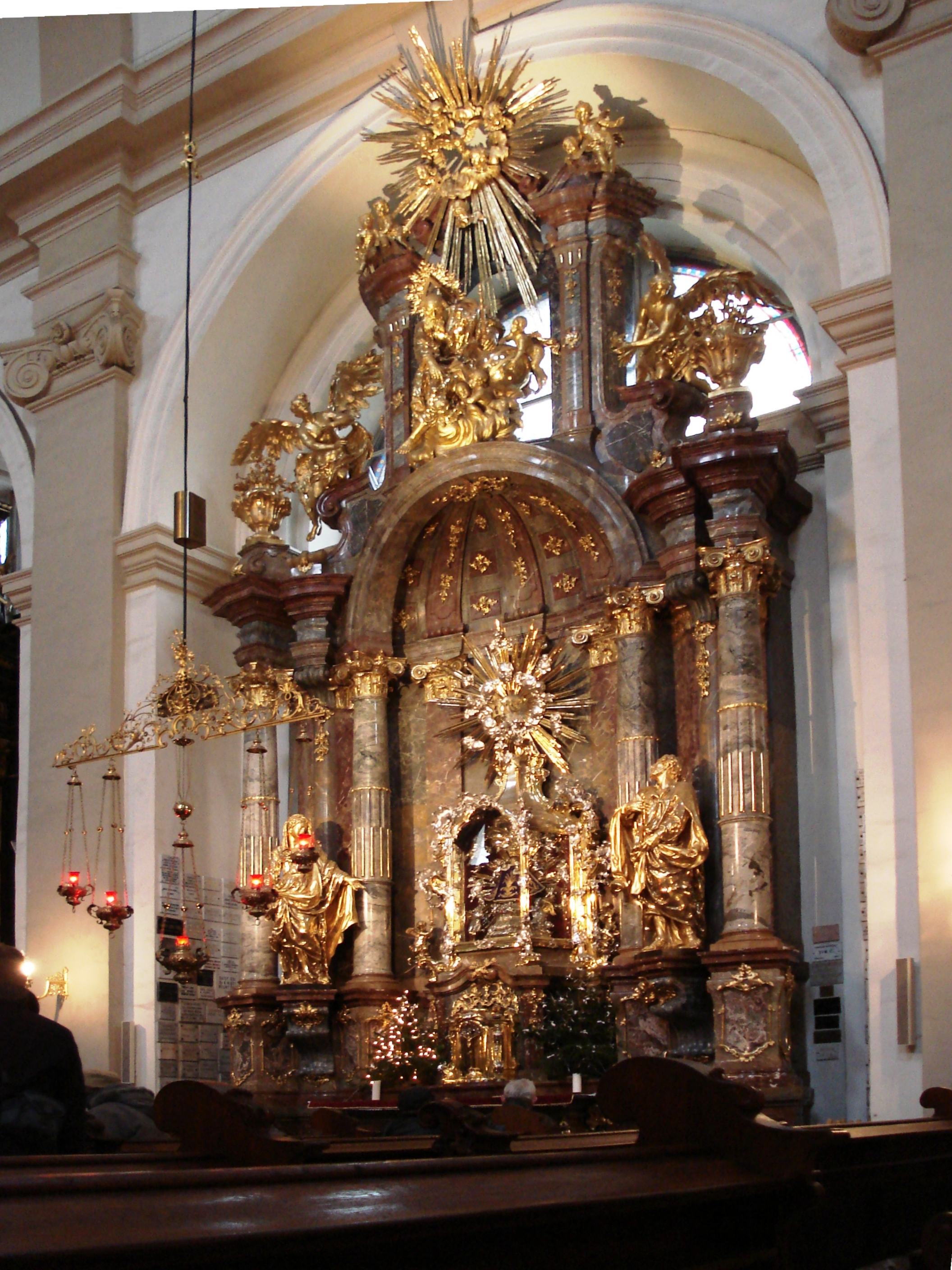 Altar of the infant Jesus of Prague in Our Lady of the Victory, Mala Strana, Prague.